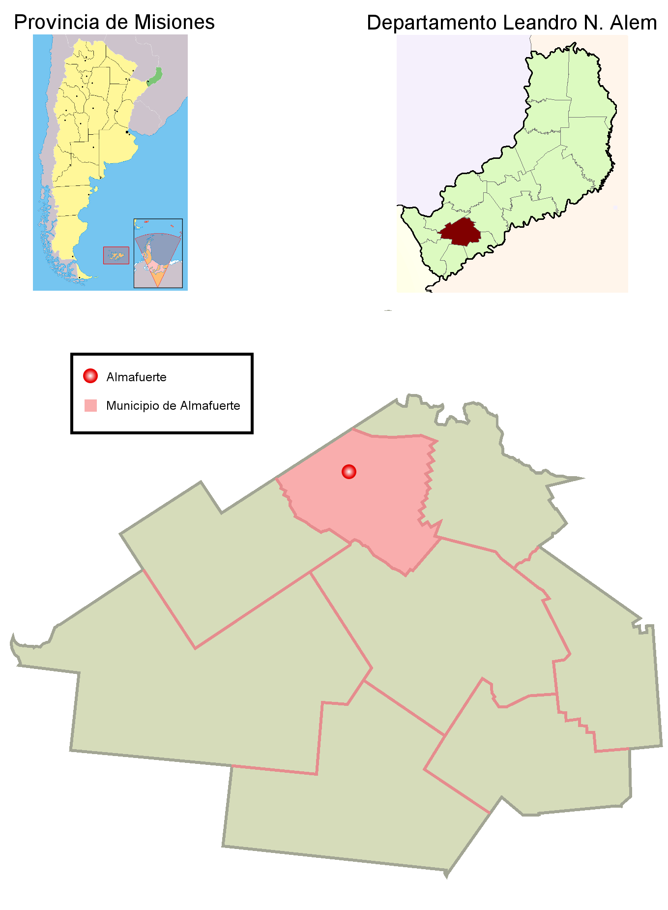 Map showing municipio of Almafuerte in Leandro N. Alem department, Misiones Province, Argentina. Red point marks Almafuerte town.